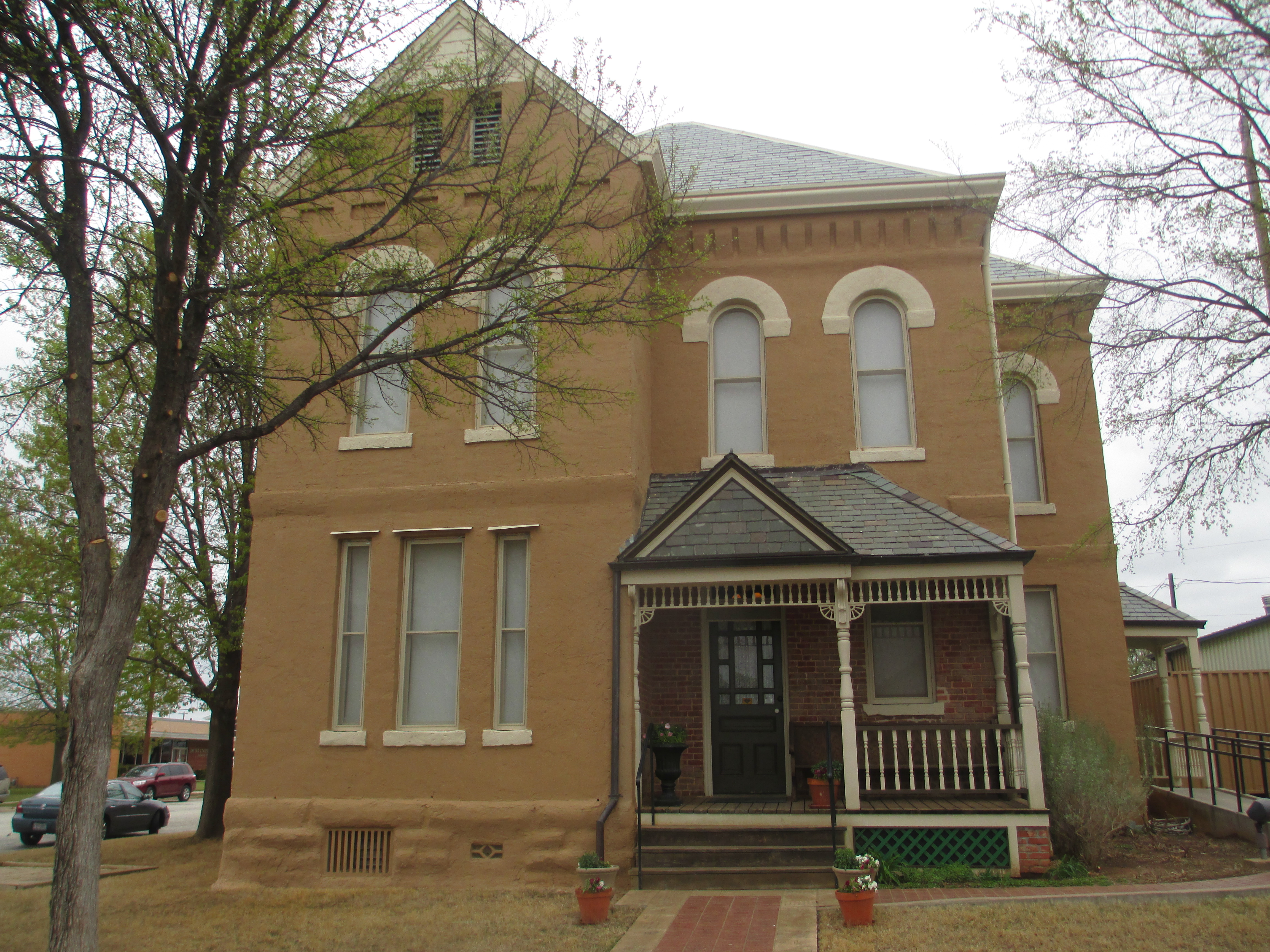 I took photo of Clay County 1890 Jail Museum in Henrietta, TX, with Canon camera, April 4, 2013. Recorded Texas Historic Landmark - 1986. Billy Hathorn (talk) 22:44, 10 April 2013 (UTC)